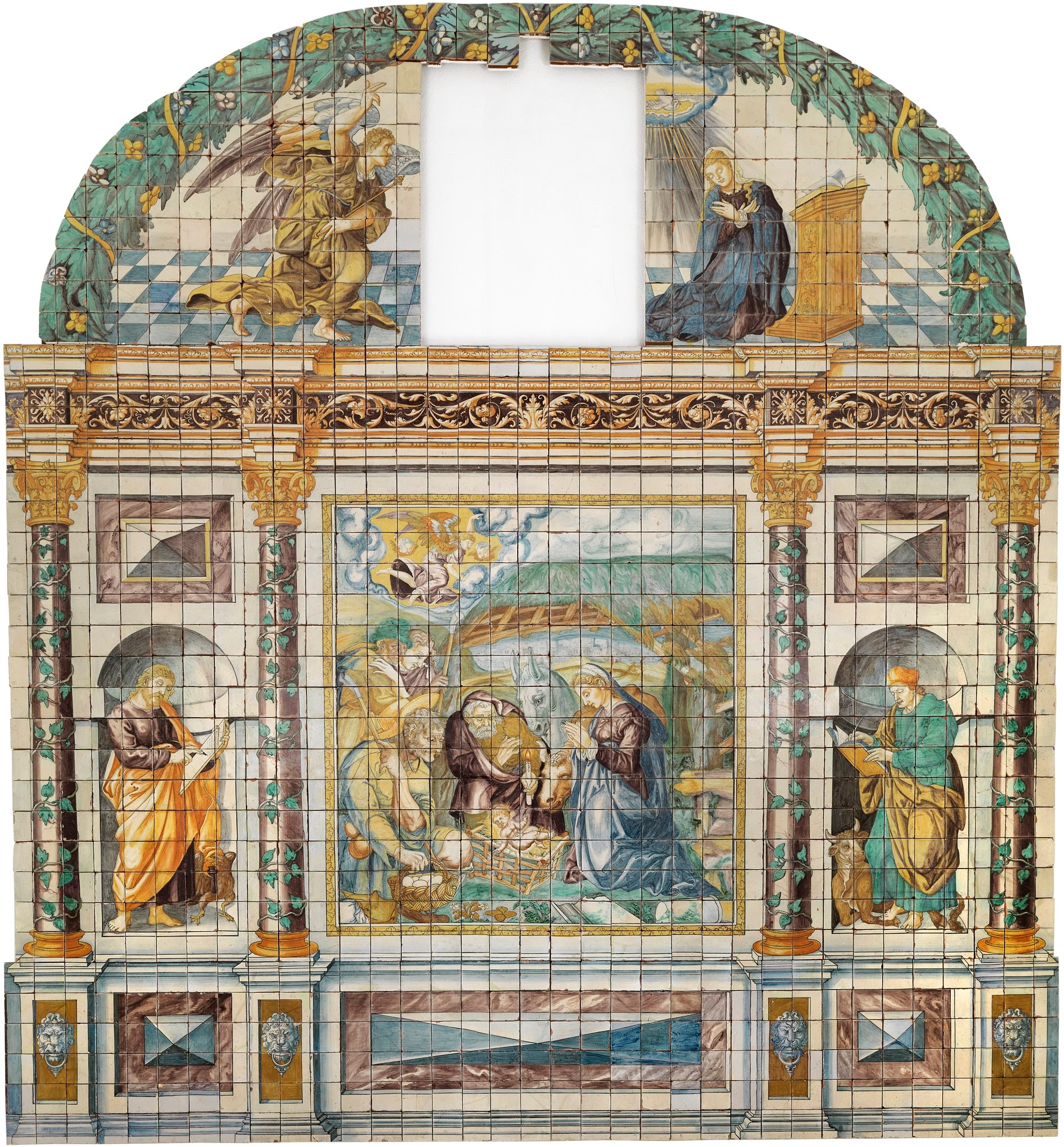 The "Our Lady of Life Altarpiece" (Retábulo de Nossa Senhora da Vida), 1580, attributed to Marçal de Matos. National Azulejo Museum, Lisbon, Portugal.